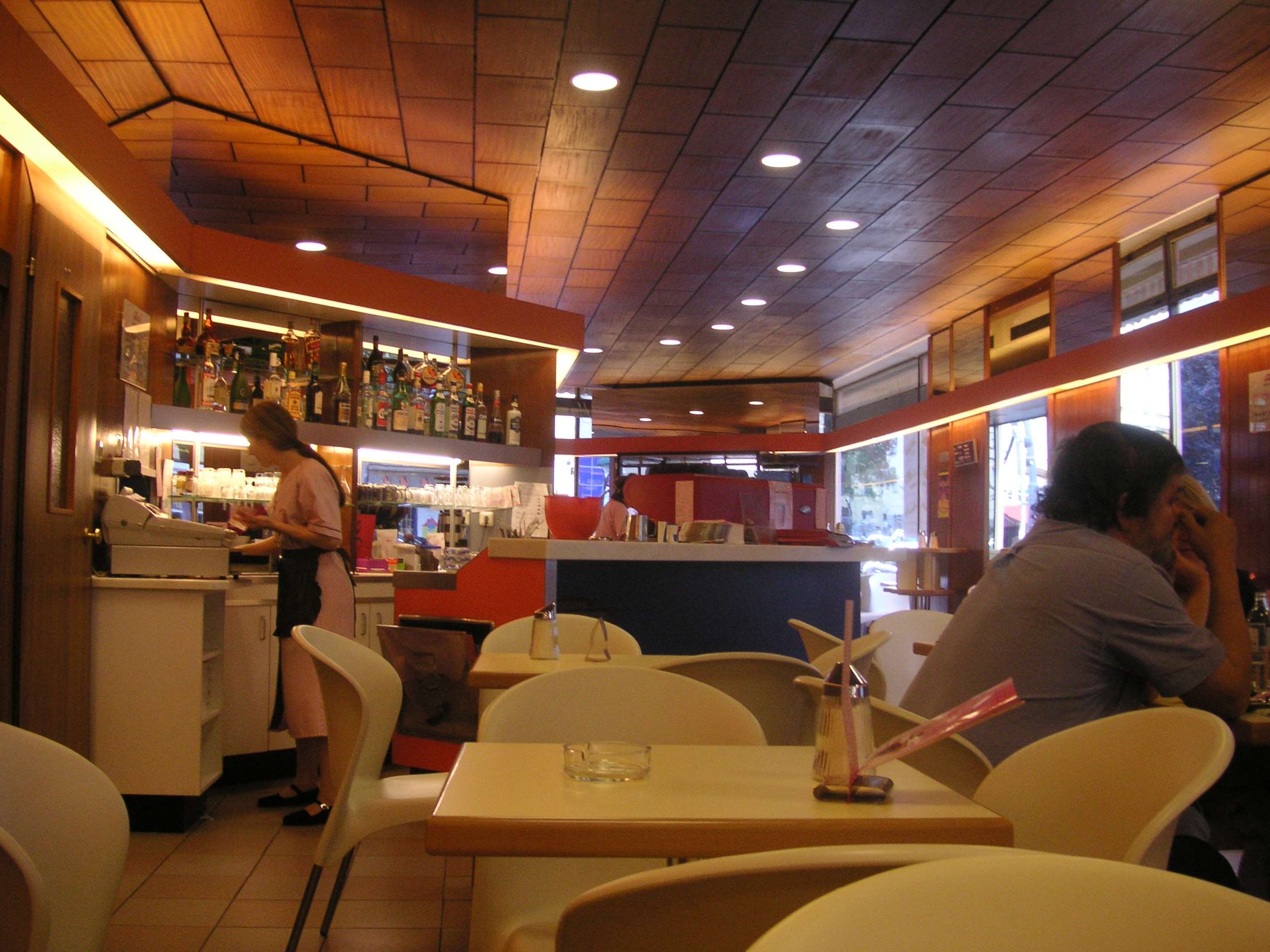 Photo by KF, September 2005.